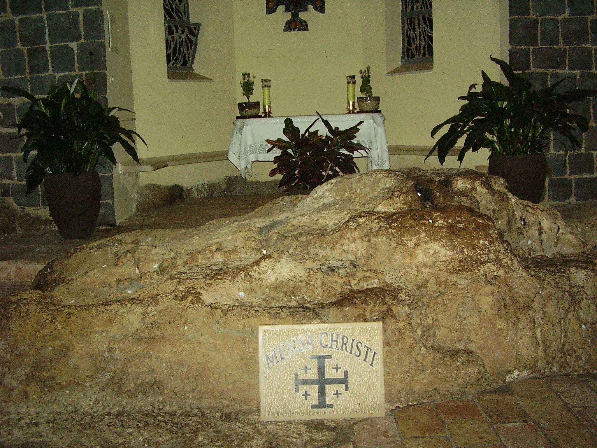 Mensa Christi in the Church of Primacy of St. Peter - Mensa Christi - Latin for the table of Christ: Mensa is a table, and Christi is Christ.